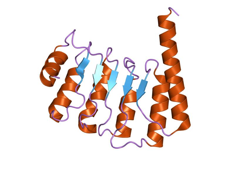 Cartoon representation of the molecular structure of protein registered with 1pgv code.